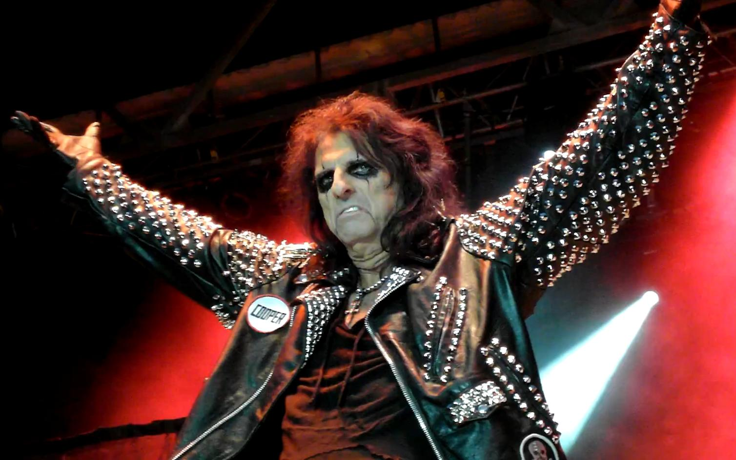 It is from an Alice Cooper concert.